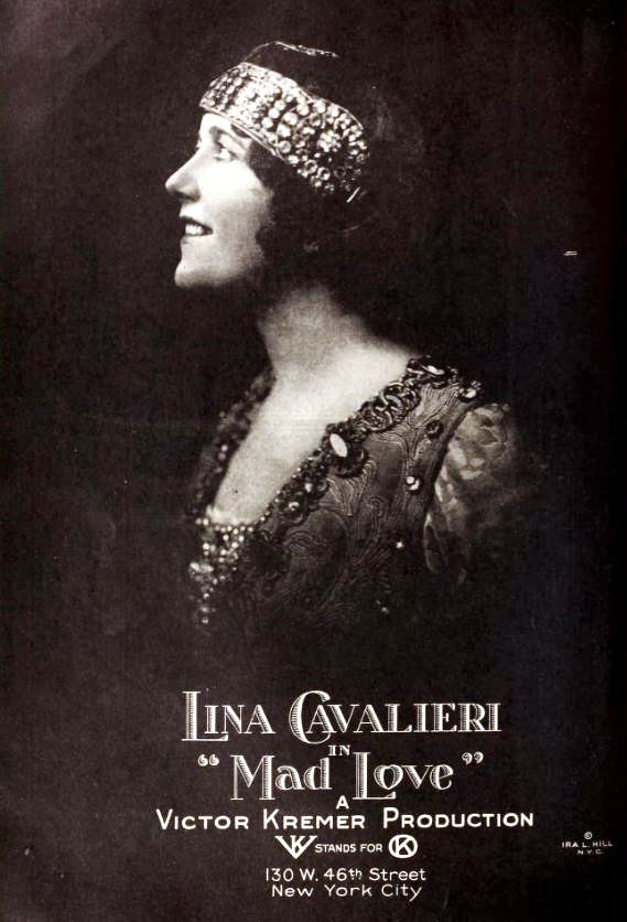 Advertisement with Lina Cavalieri for a film titled Mad Love, on page 18 of the October 30, 1920 Exhibitors Herald. There is no film with Cavalieri currently listed in the IMDB with this title or any distributed by or produced by Victor Kremer.